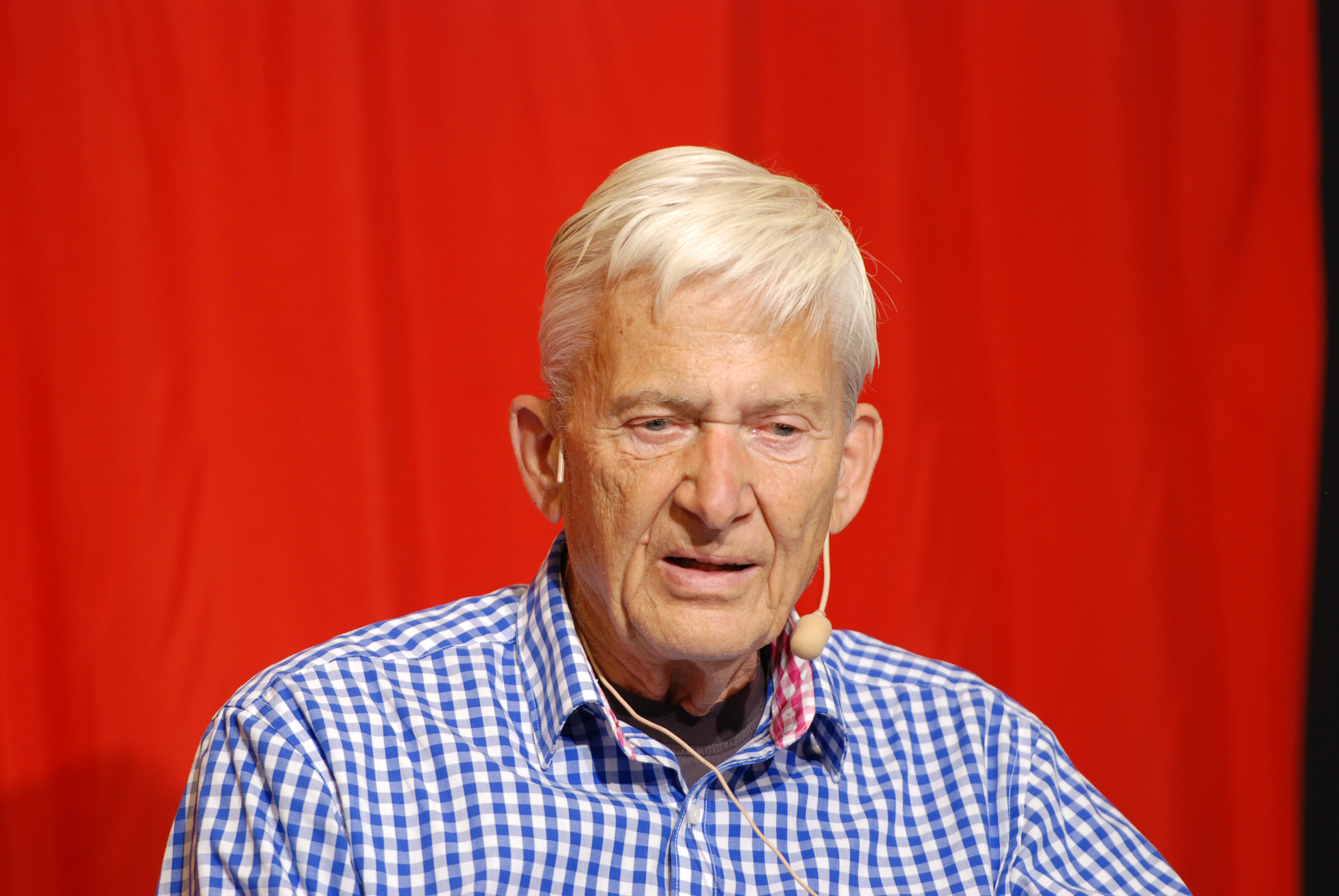 The Swedish writer P.O. Enquist at Göteborg Book Fair 2013.